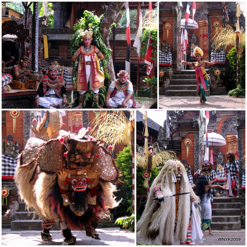 Barong versus Rangda dance in Bali. Sadewa tied at a tree; Rangda's servant girl; Rangda; Barong